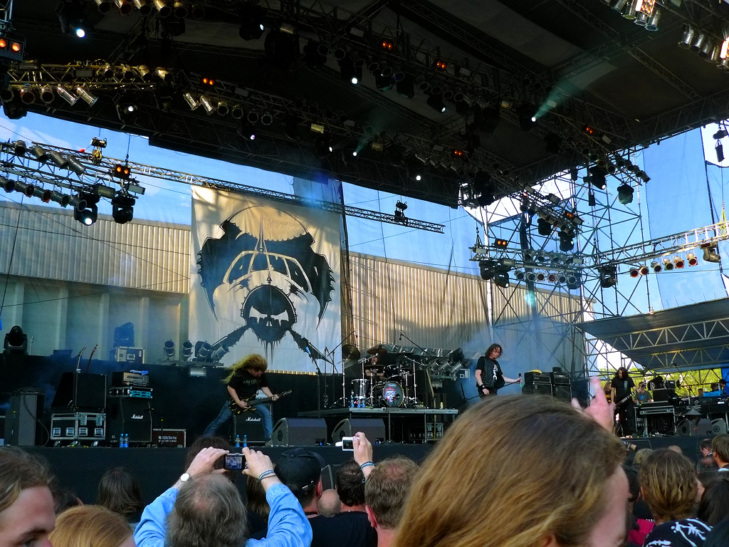 Voivod on Masters of Rock '09